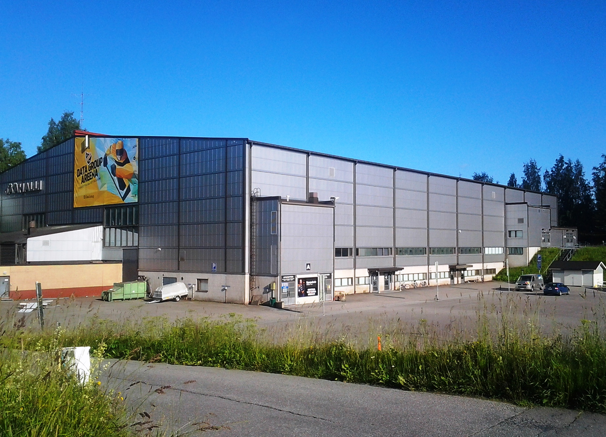 Kuopio ice hall, western side.